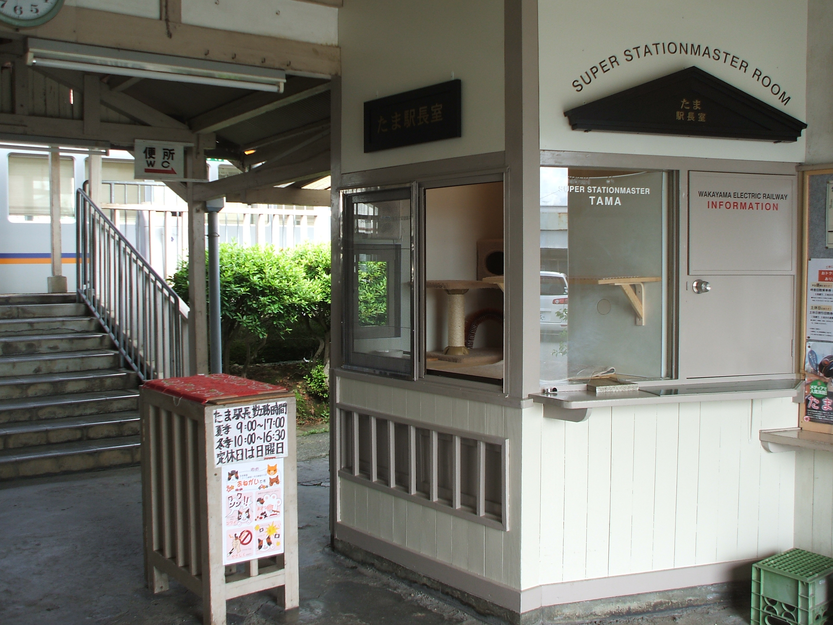 Tama – Stationmaster's room and one gate of Kishi Station in Kinokawa, Wakayama Prefecture, Japan.